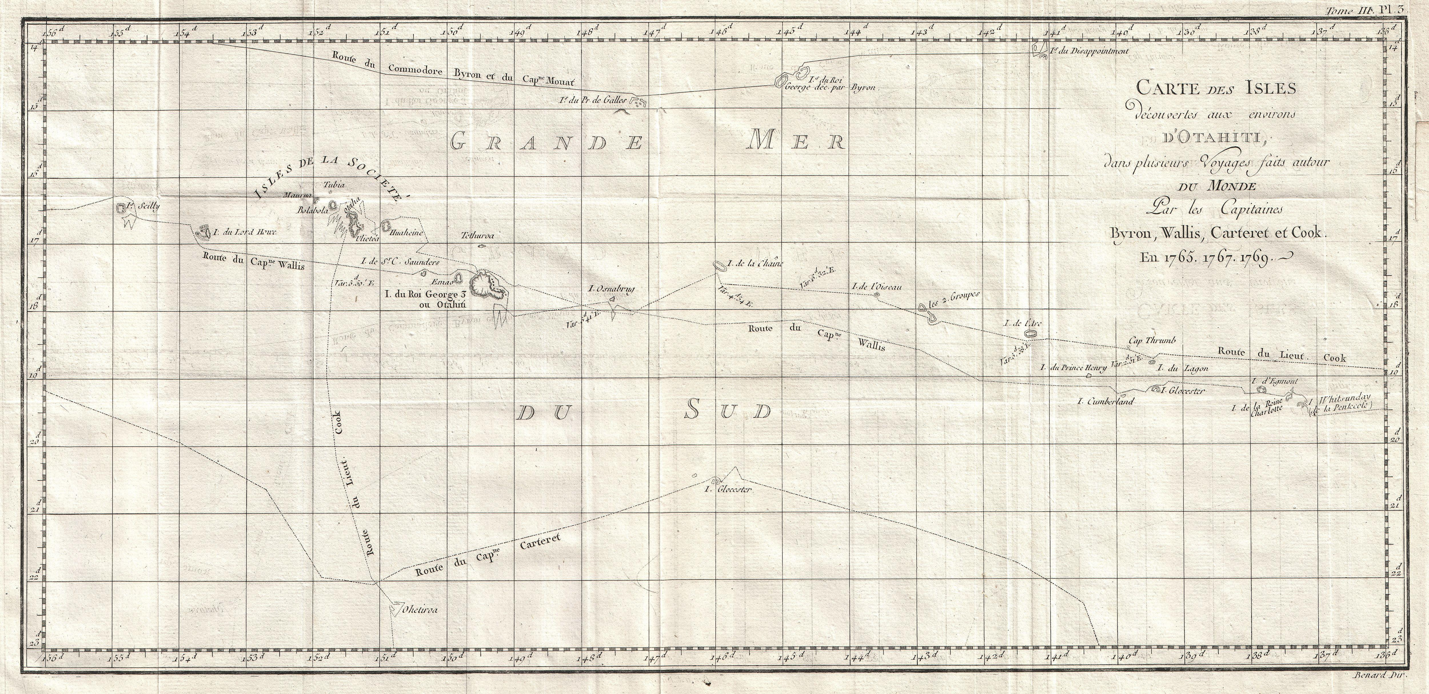 This is a fine map shows the explorations of Captain Cook, Captain Byron, Captain Wallis and Captain Carteret in the vicinity of Tahiti and the Society Islands from 1765 to 1769. Extends from Is. Scilly [i.e. the Scilly Islands] in the west and to I. Whitsunday de la Pentecote [i.e. the Whitsunday Island] in the east, from Is. du Disappointment [i.e. Disappointment Island] in the north to Ohetiroa in the south. Features the routes taken by these important explorers as the zig-zagged in and around the Society Islands. Depicts the island of Tahiti (Otaheite) as well as Bora Bora (Bolabola), Otaha, Marma, Ulietea, and others. Title in decorative script in the upper right quadrant. Engraved by Bernard for the 1774 Paris edition of John Hawkesworth’s Account of the Voyages… , in which this was contained as Plate 3 in Volume III.